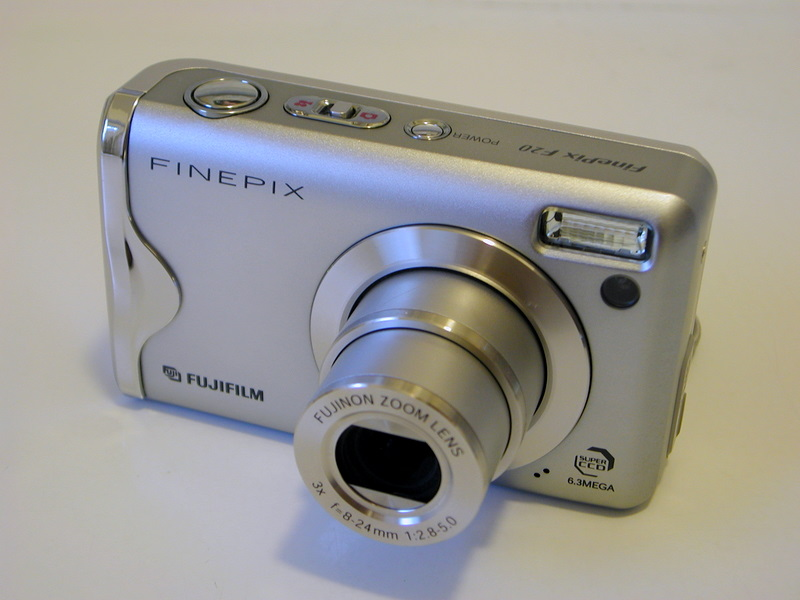 Fujifilm F20 Camera_front view_lens extended